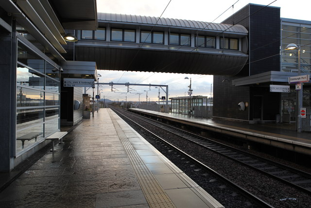 Edinburgh Park Train Station Edinburgh Park railway station opened in 2003 and is in the west of Edinburgh, serving the Edinburgh Park business park and the Hermiston Gait shopping centre. There are two platforms, linked by a covered footbridge, which is accessible by either stairs or a lift.